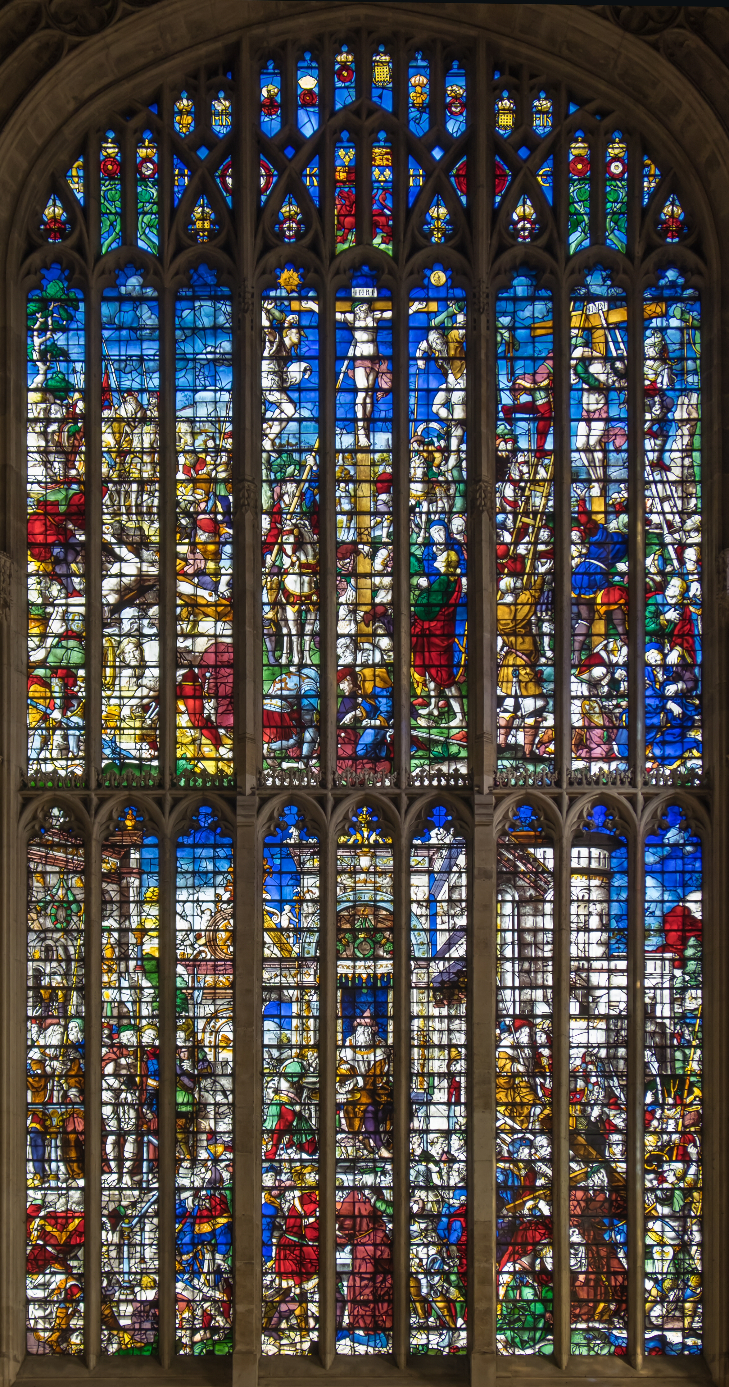 The Great East Window of King's College Chapel in the University of Cambridge. This window dates from 1515 to 1531.